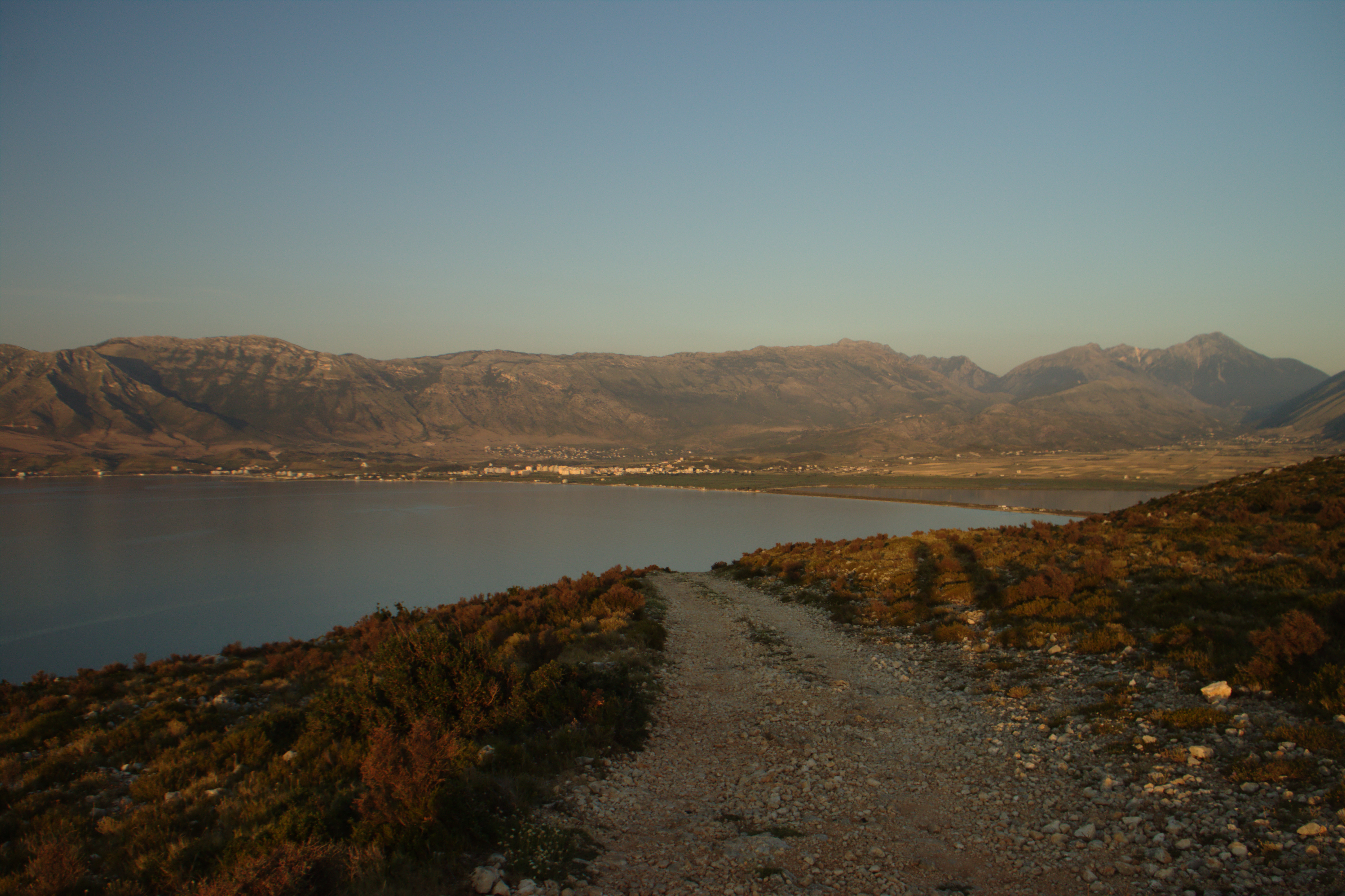 Shkembin karbonatike mountains seen from Karaburun Peninsula, Albania